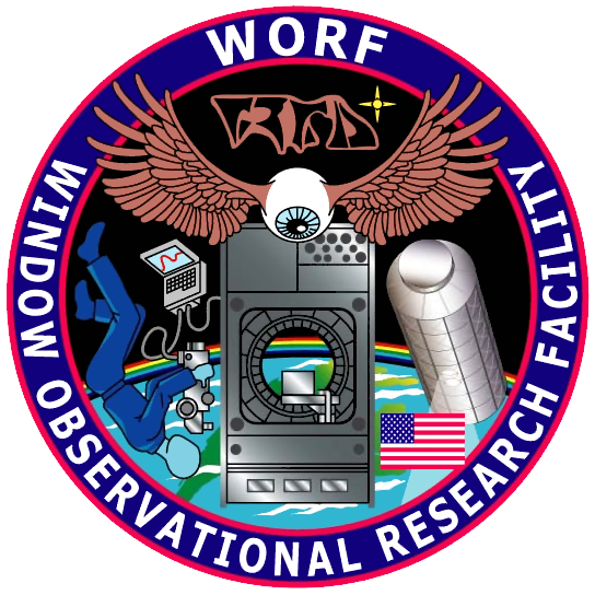 The Window Observational Research Facility (WORF) Patch This patch represents the essential elements associated with pressurized Earth science research aboard the International Space Station. At the top of the patch Klingon script spells out the acronym WORF making reference to the famed Star Trek character of the same name. In doing so it attests to the foresight, honor, integrity and persistence of all those who made the WORF possible. To the right of the Klingon script is a single four pointed star in the form of a cross to honor the late Dr. Jack Estes and Dr. Dave Amsbury, the individuals most responsible for seeing to it that an optical quality, Earth science research window was added to the United States laboratory module, “Destiny”. The “flying eyeball” represents the ability of the ISS to allow scientists and astronauts to make and record continuous observations of natural and manmade processes on the surface of the Earth. The “Destiny” laboratory is depicted on the right of the patch above the United States Flag and highlights the position of the nadir looking, optical quality, science window on the module. The light emanating from the window from the lighted interior of the module appropriately illuminates the National Ensign for display during both day and night time. In the center of the patch, below the flying eyeball is a graphic representation of the WORF rack. A science instrument is mounted on the WORF payload shelf and is recording data of the Earth’s surface through the nadir looking, science window over which the WORF rack is mounted. An astronaut is depicted to the left of the WORF rack and is shown operating an imaging instrument, emphasizing the importance of astronaut participation to achieve the maximum scientific return from orbital research.